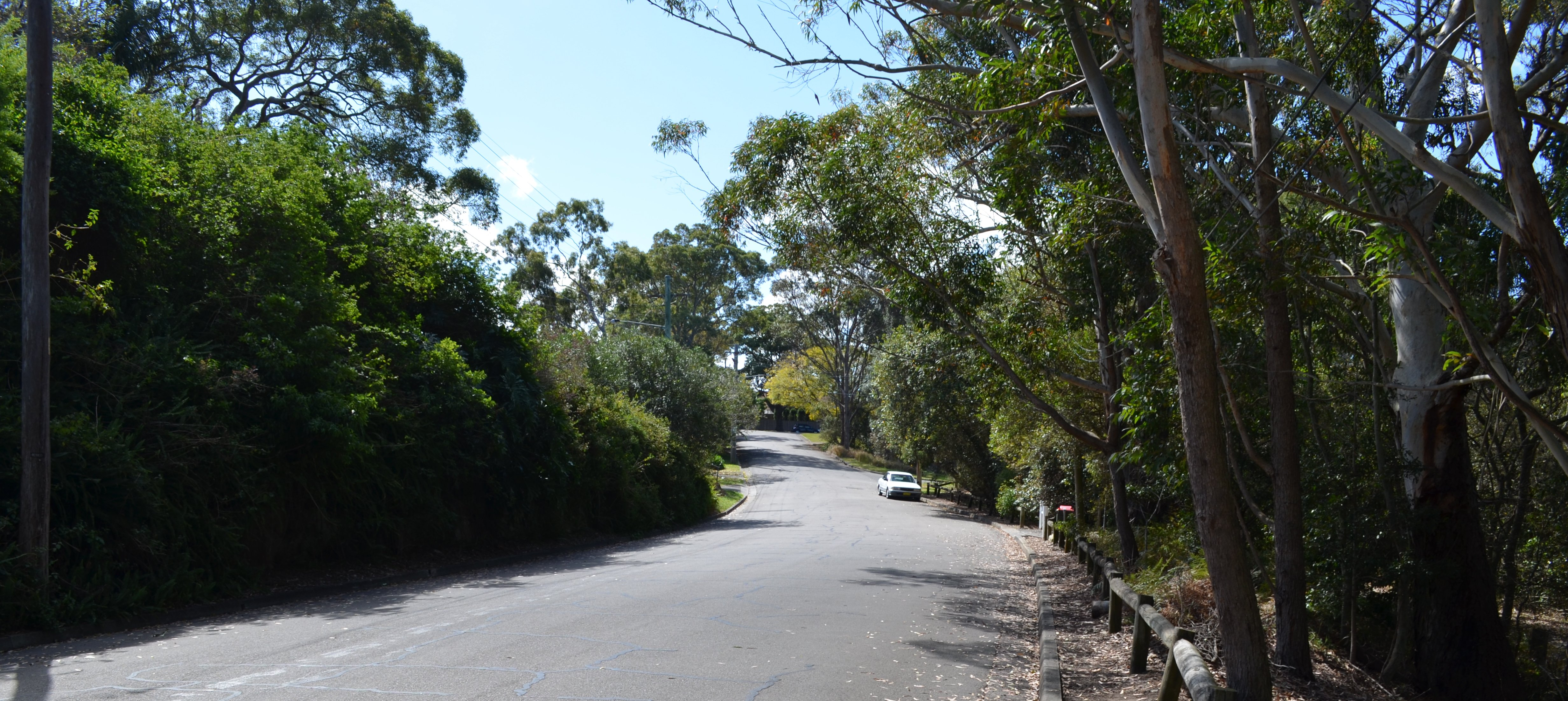 Annette Street Oatley NSW